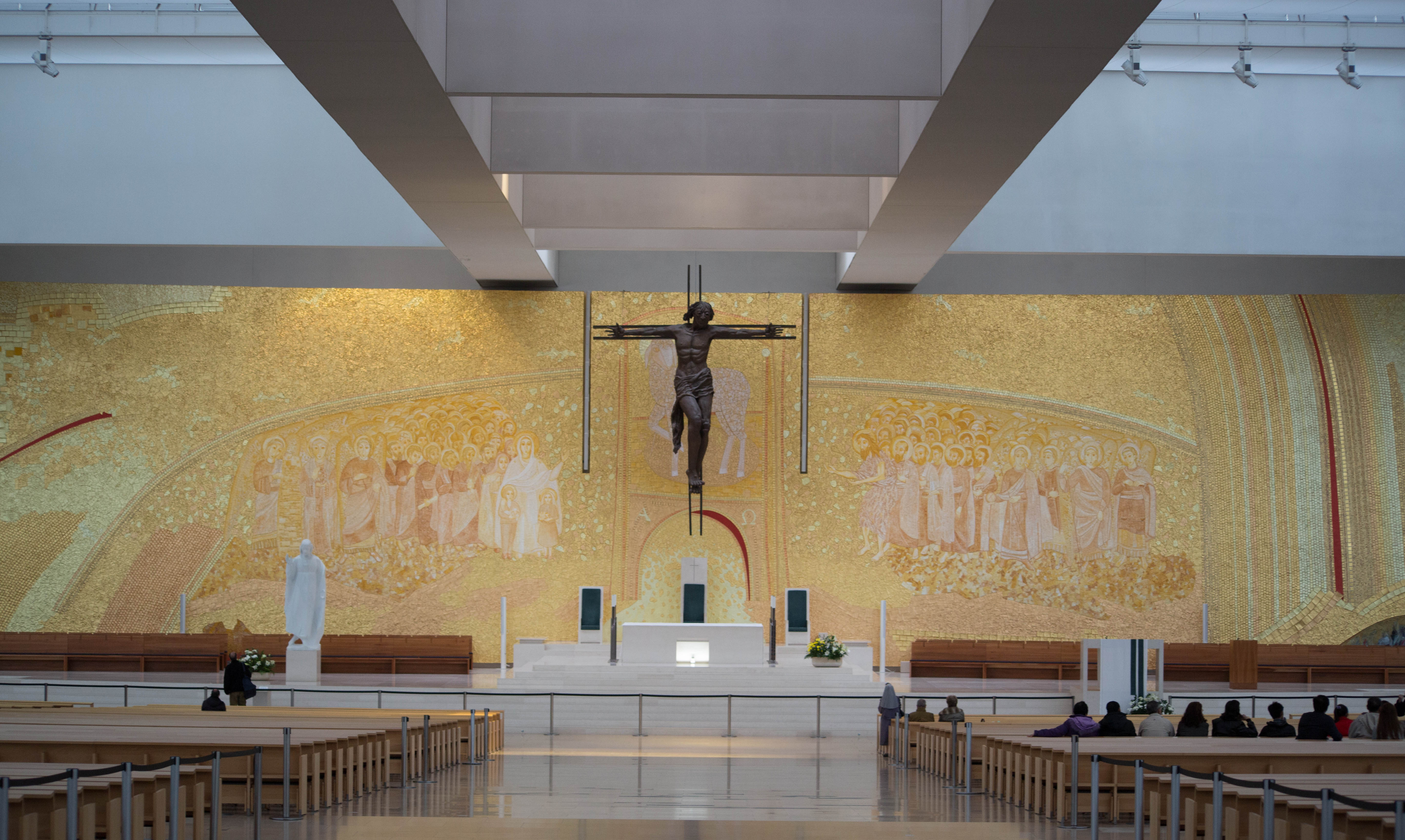 Fátima, Portugal.